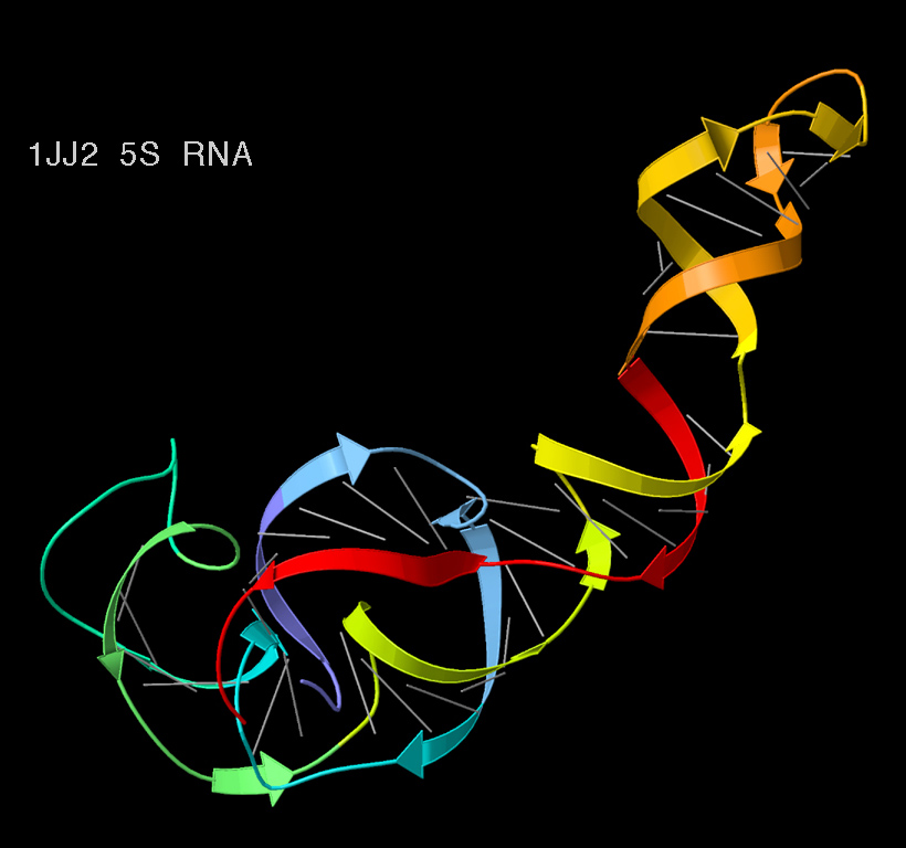 3D structure of the 5S ribosomal RNA component (PDB file 1JJ2), with gray lines for base pairs and ribbon arrows for double-helical regions, colored blue to red from 5' to 3' end of the chain. Shown in the Mage kinemage graphics program and rendered in Raster3D.